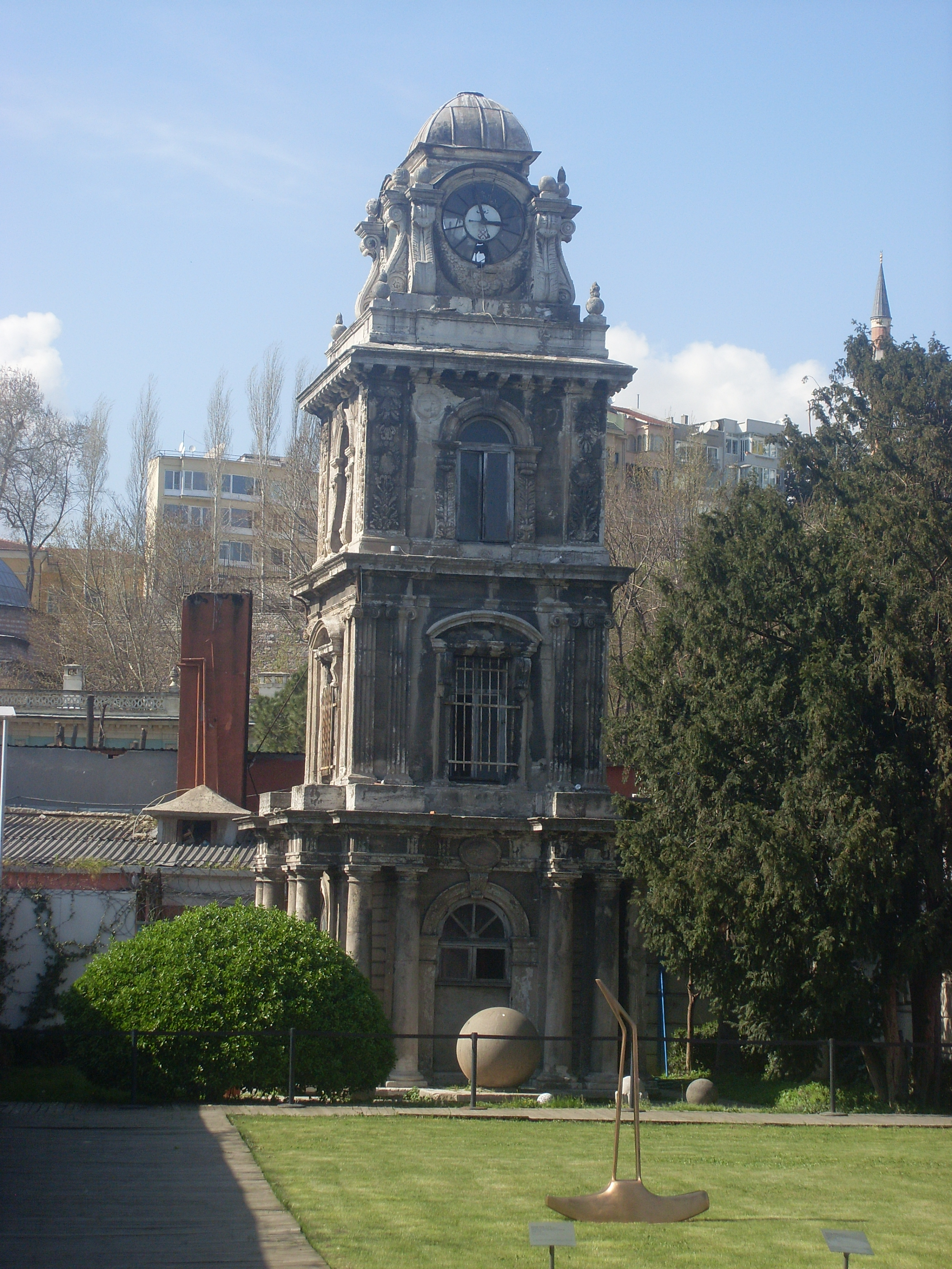 Tophane (Nusretiye) Clock Tower p10